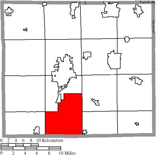 Map of the municipal and township boundaries of Wayne County, Ohio, United States, as of the 2000 census, with the location of Franklin Township highlighted. Township borders are shown only in unincorporated areas in order to differentiate incorporated and unincorporated areas more clearly.